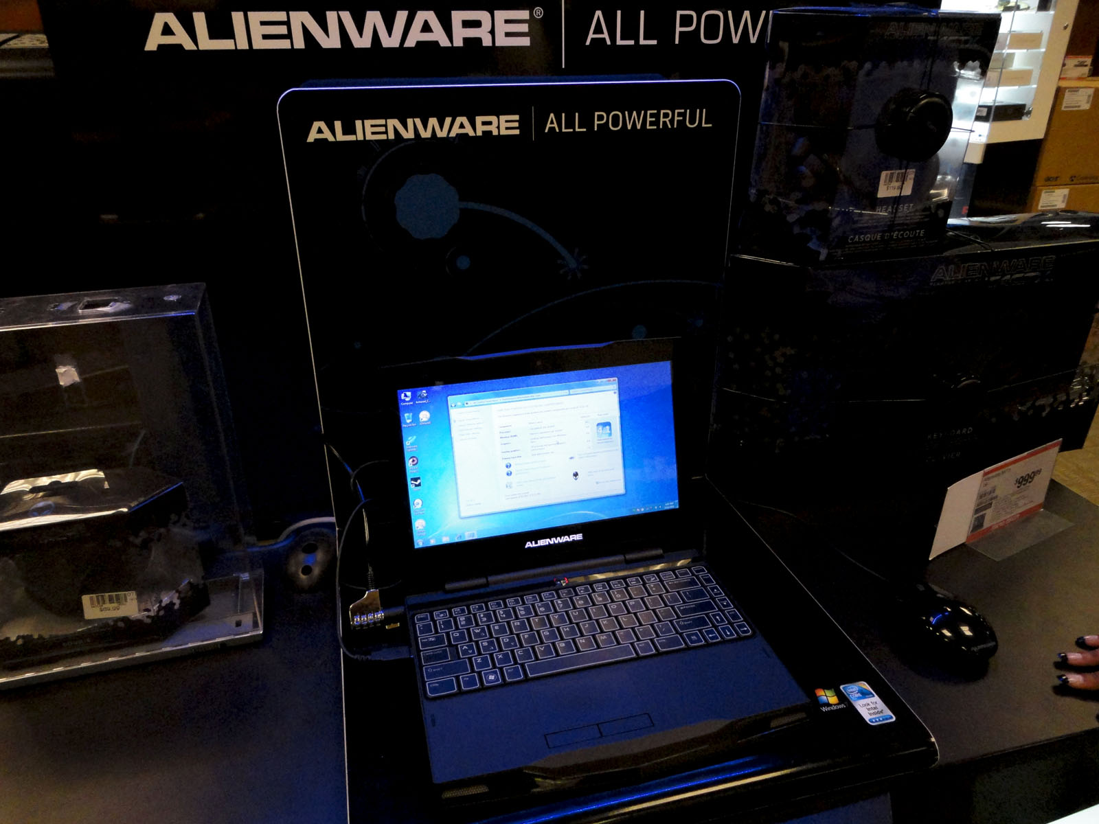 An Alienware exhibition stand in a shop.